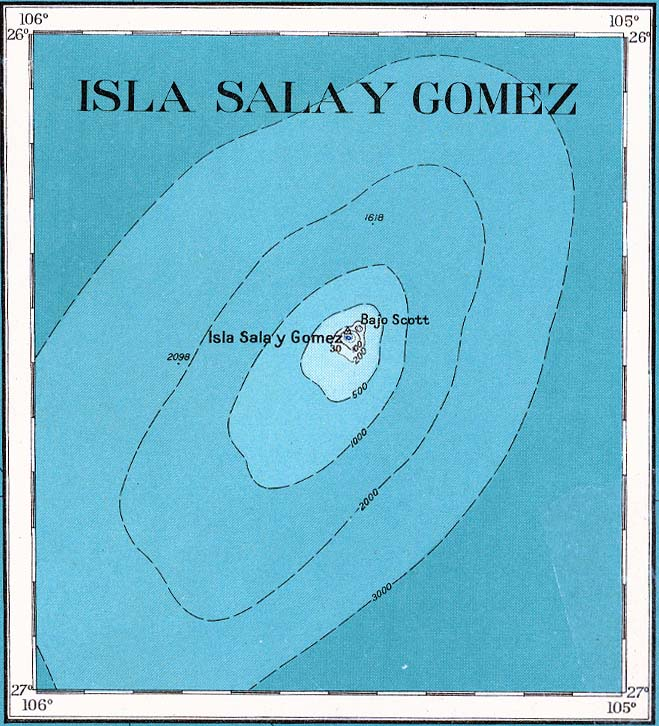 Map of Sala y Gómez Island in the Pacific Ocean